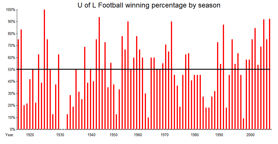 Chart of Louisville Cardinals football winning percentage by season